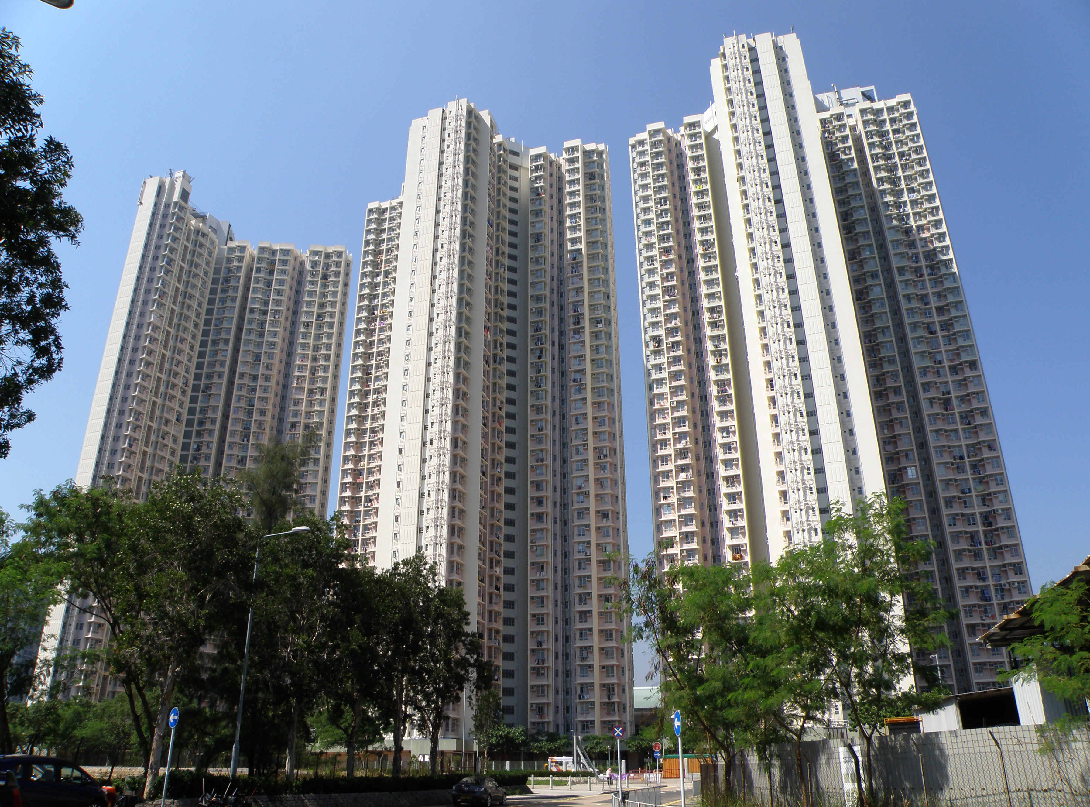 Yan On Estate in Ma On Shan, Hong Kong.